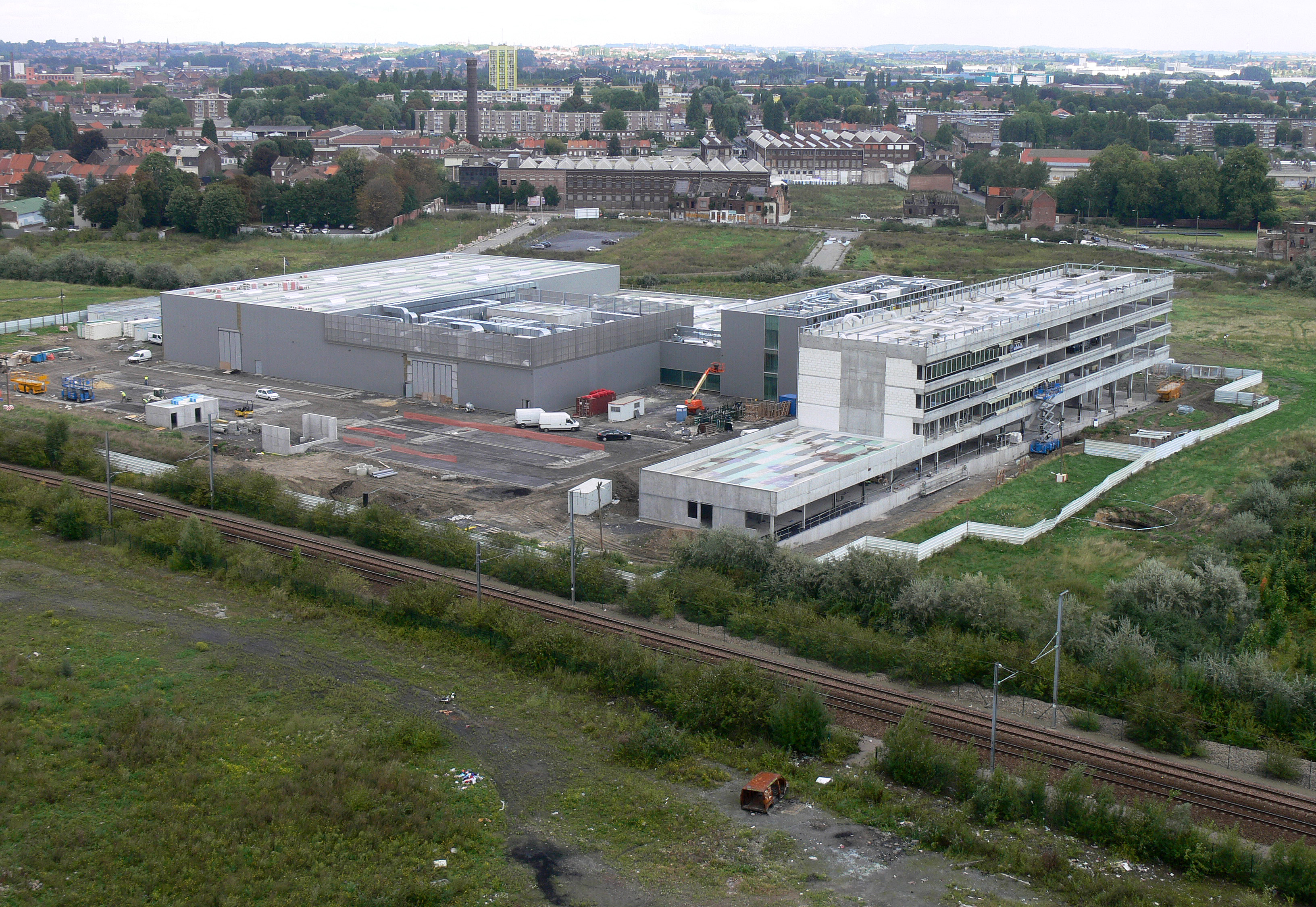 CETI building under construction (2010-09-17), in northern France, near Lille, on the Union area. This building must have 12 500 m2 (open late 2011). It is part of Competitiveness cluster UP-TEX about ]